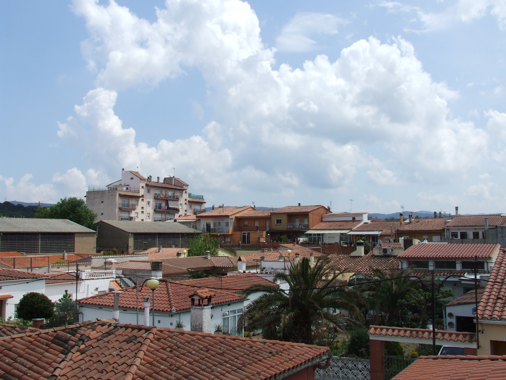 View of the village of Germans Sàbat.